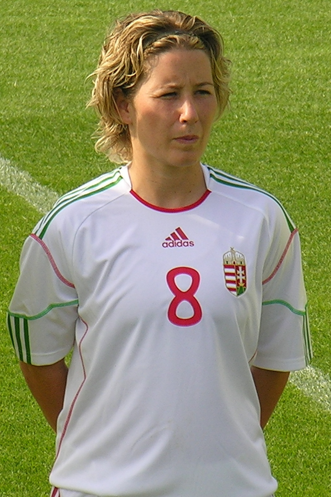 Anita Pádár Hungarian international football player. Hungary-Ukraine 0-4.